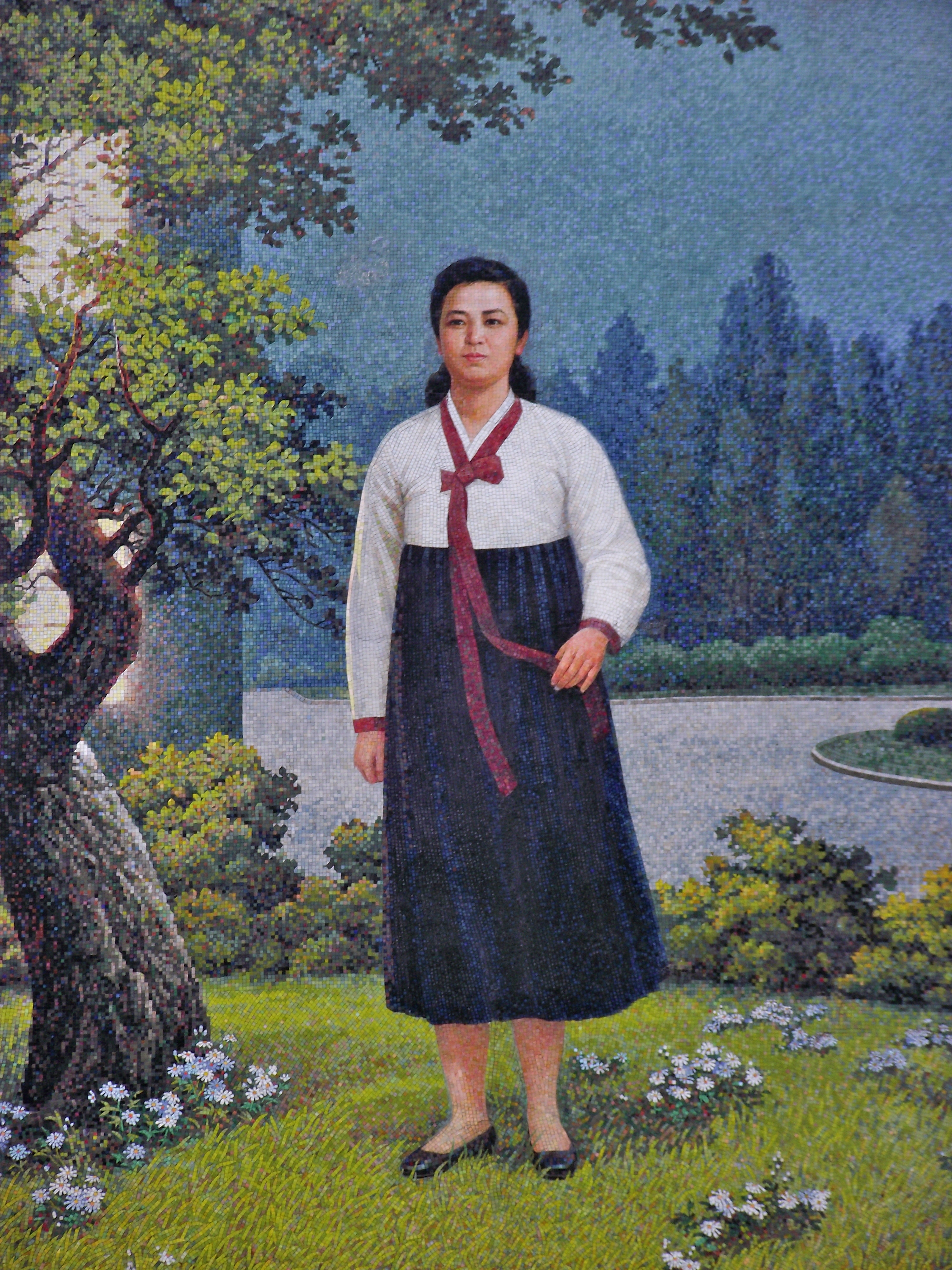 Propaganda of North Korea